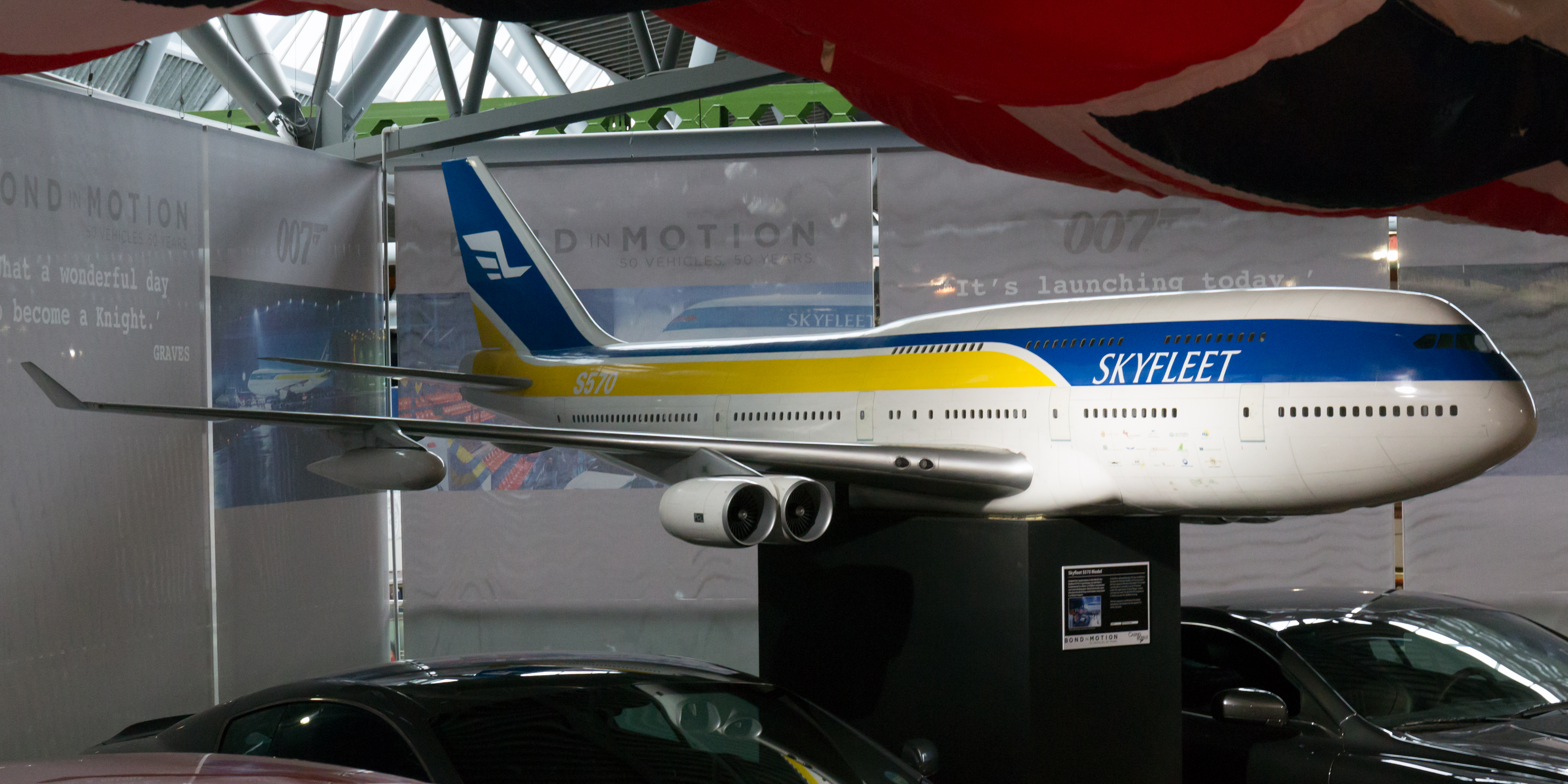 Skyfleet S570 prop, from "Casino Royale" (2006)